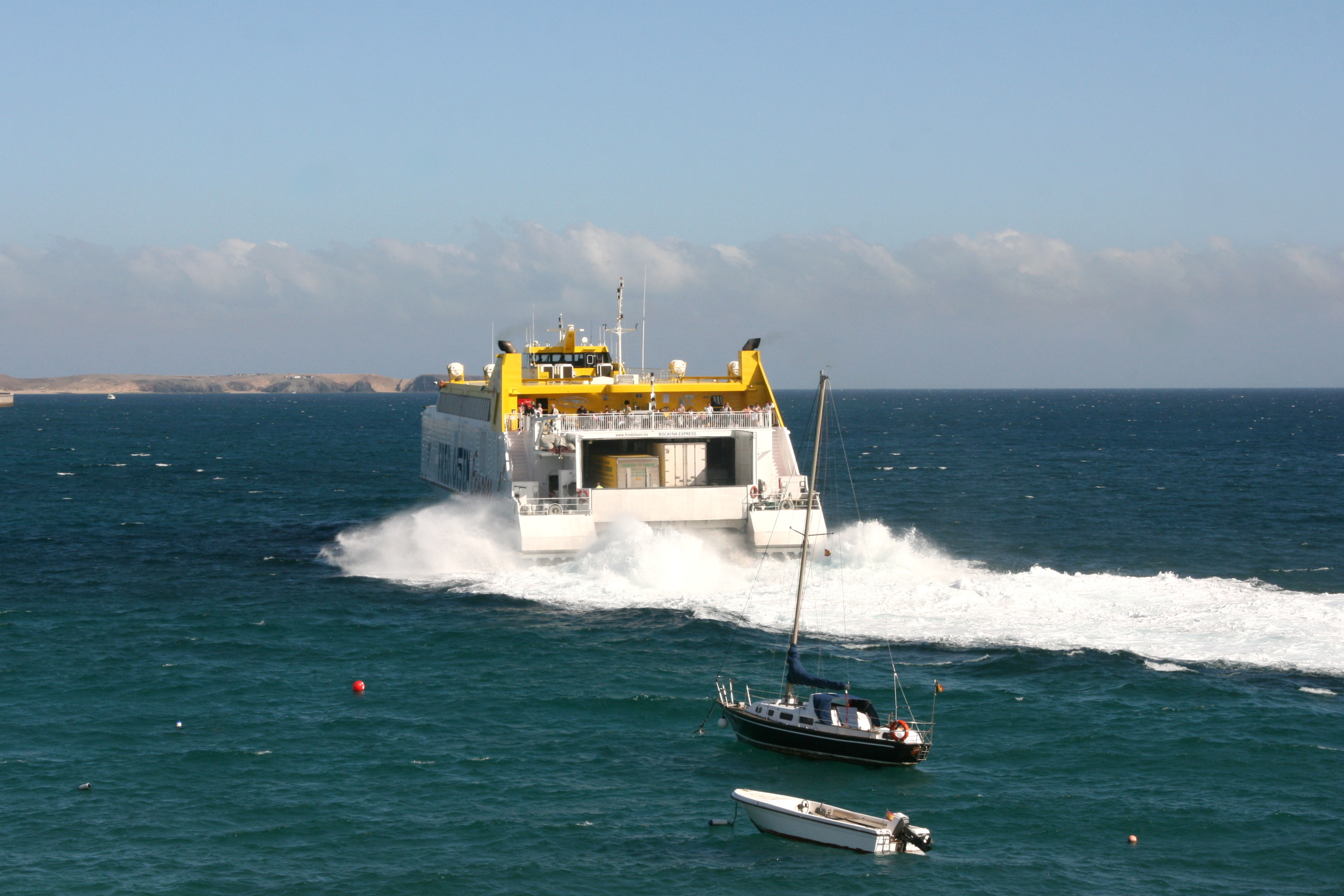 Bocayna Express (Fred.Olsen ferry) at the Port of Playa Blanca seen from Avenida Maritima in Playa Blanca, Yaiza, Lanzarote, Canary Islands